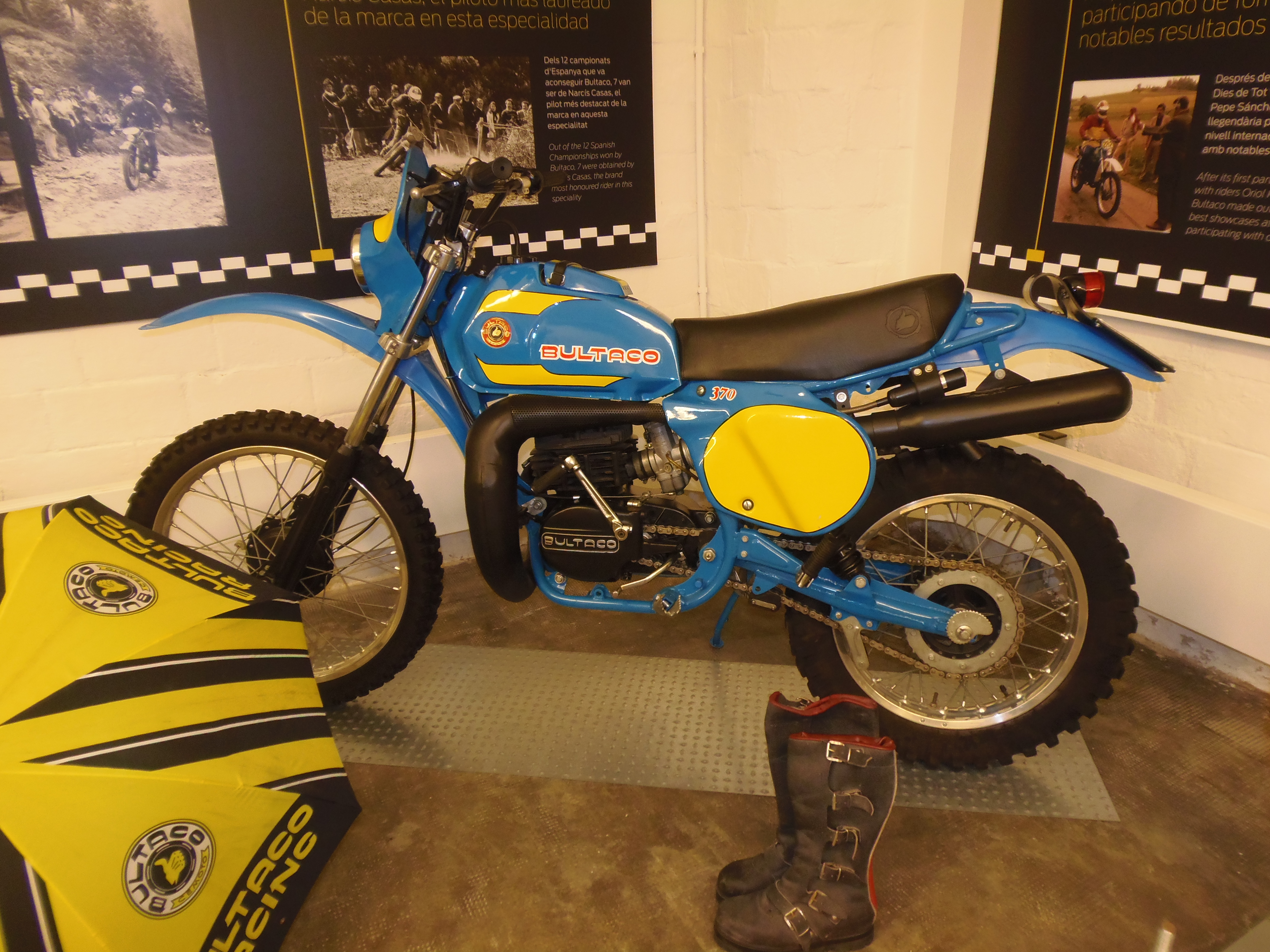 Bultaco Frontera MK11 370, 1979